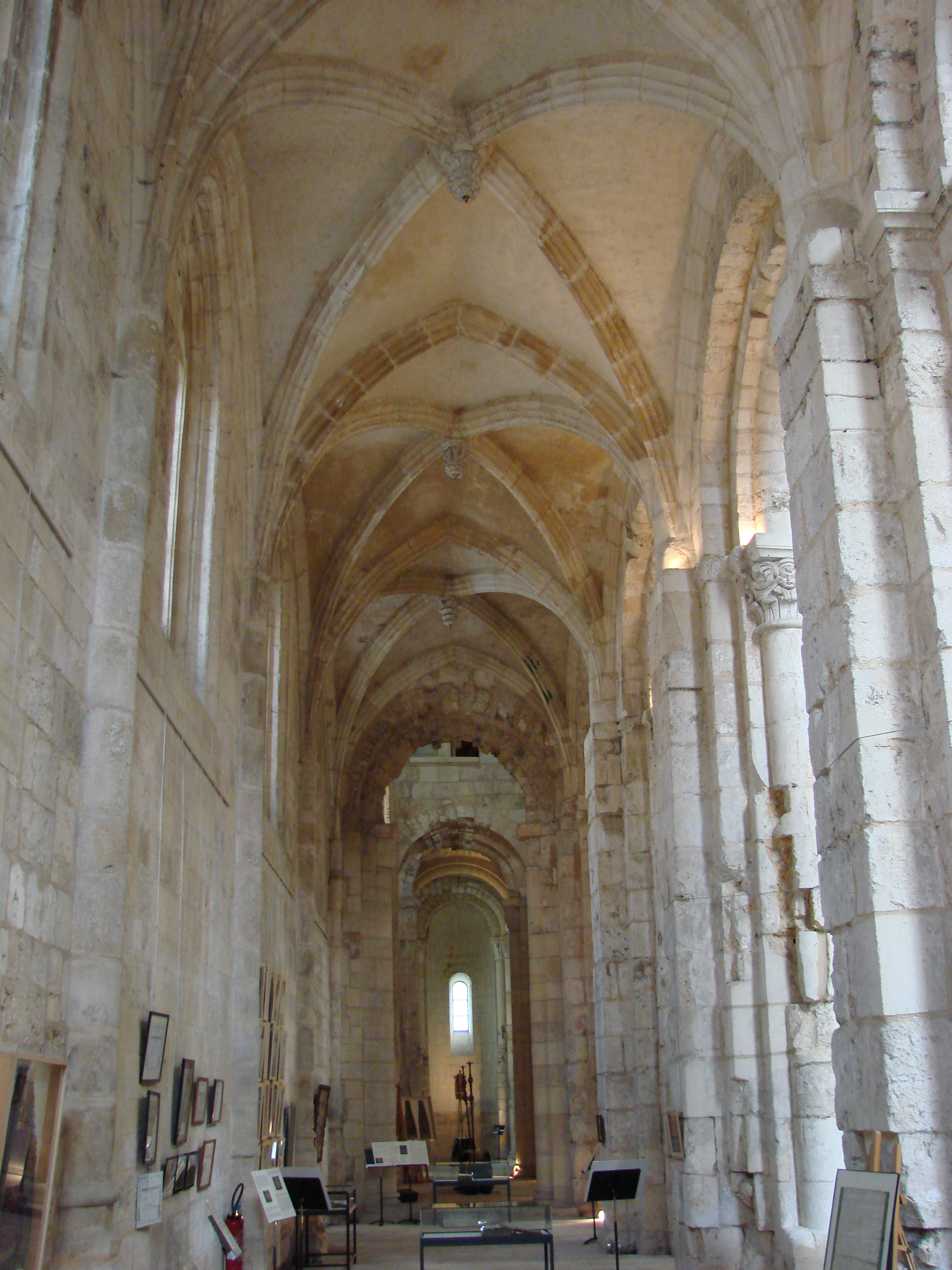 Abbey of Notre-Dame in Bernay (Eure): the northern collateral